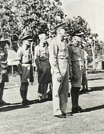 AWM Caption: "BUNA, NEW GUINEA. C. 1943. BRIGADIER GENERAL ENNIS C. WHITEHEAD, COMMANDING GENERAL ALLIED AIR FORCE IN NEW GUINEA, WITH AIR COMMODORE J. E. HEWITT, AIR OFFICER COMMANDING RAAF IN NEW GUINEA, ON PARADE FOR THE DECORATION OF FOUR RAAF OFFICERS "FOR SERVICES RENDERED TO THE UNITED STATES"."